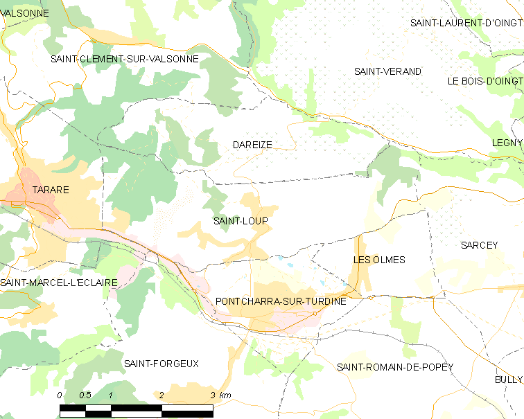 Map of French municipality